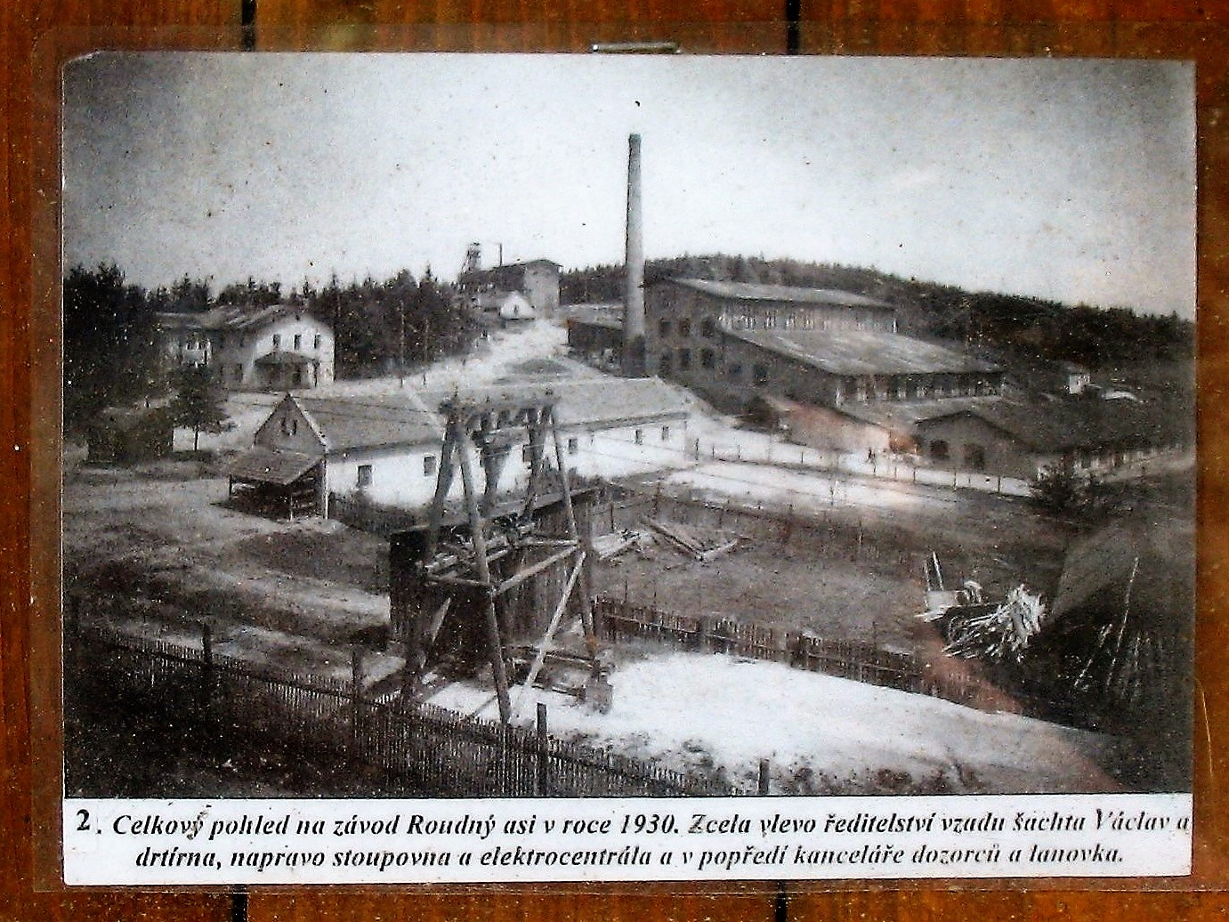 Former Roudný gold mine, Central Bohemia